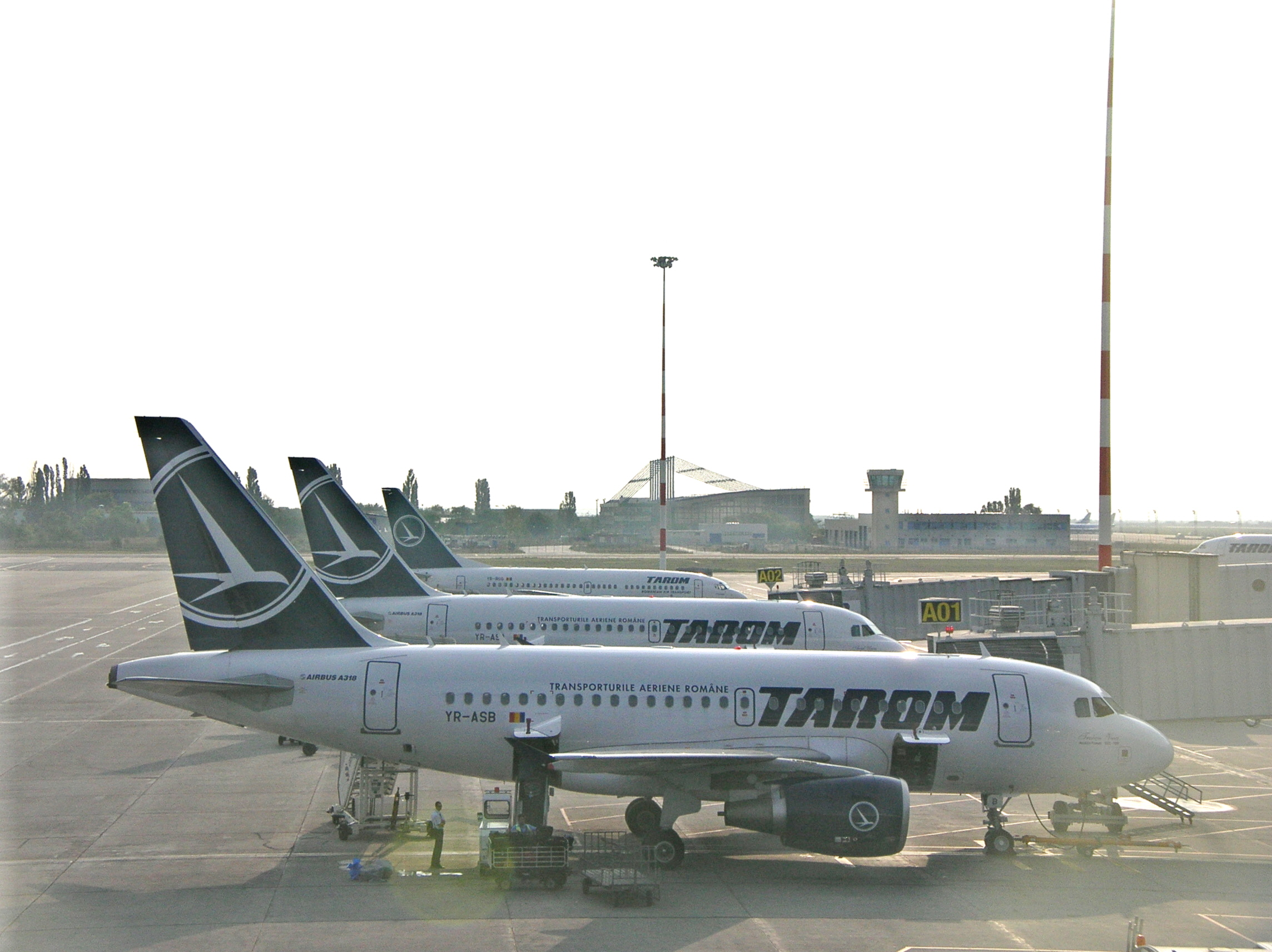 Planes TAROM in Henri Coandă International Airport